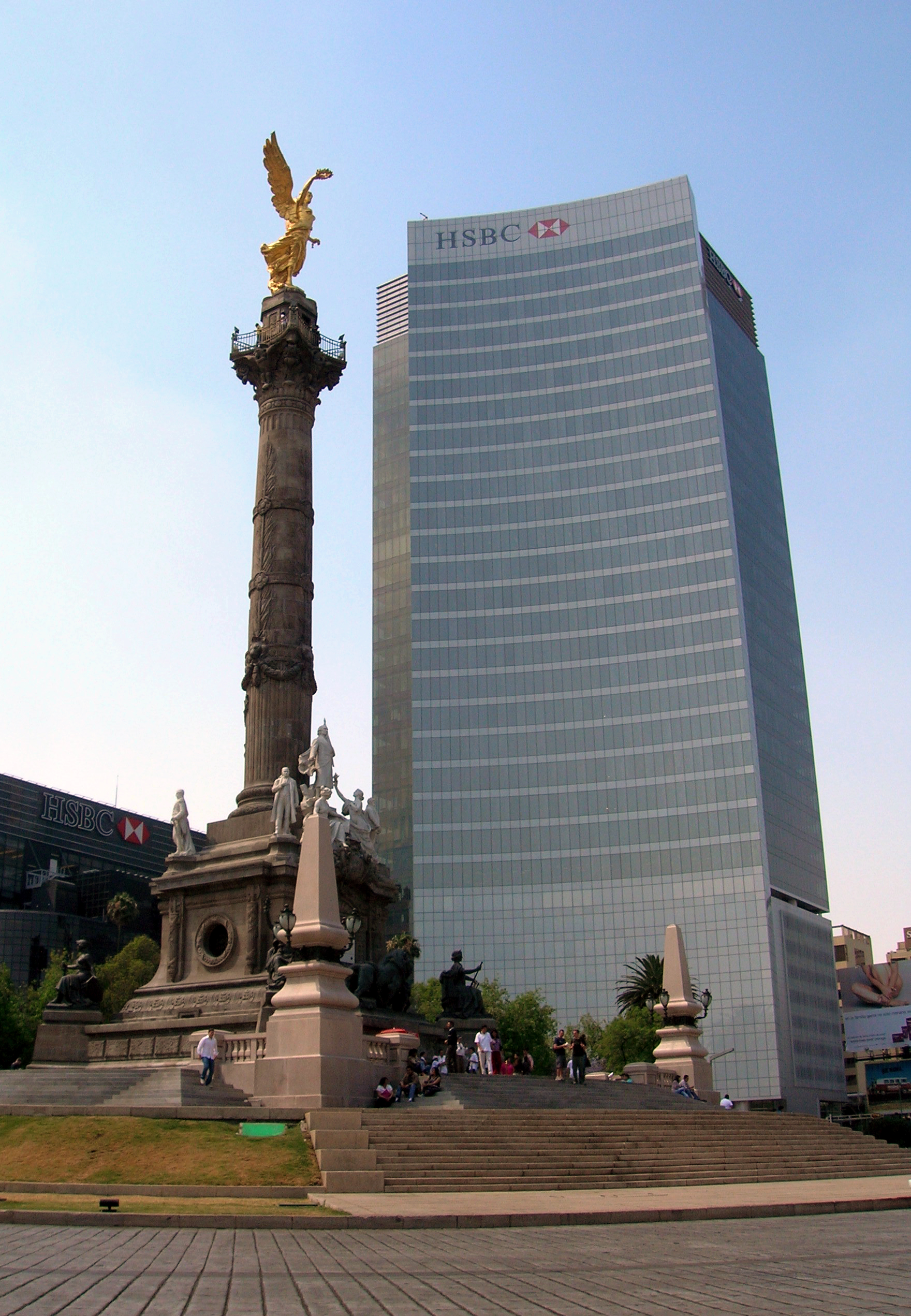 El Ángel de Independencia, Mexico City